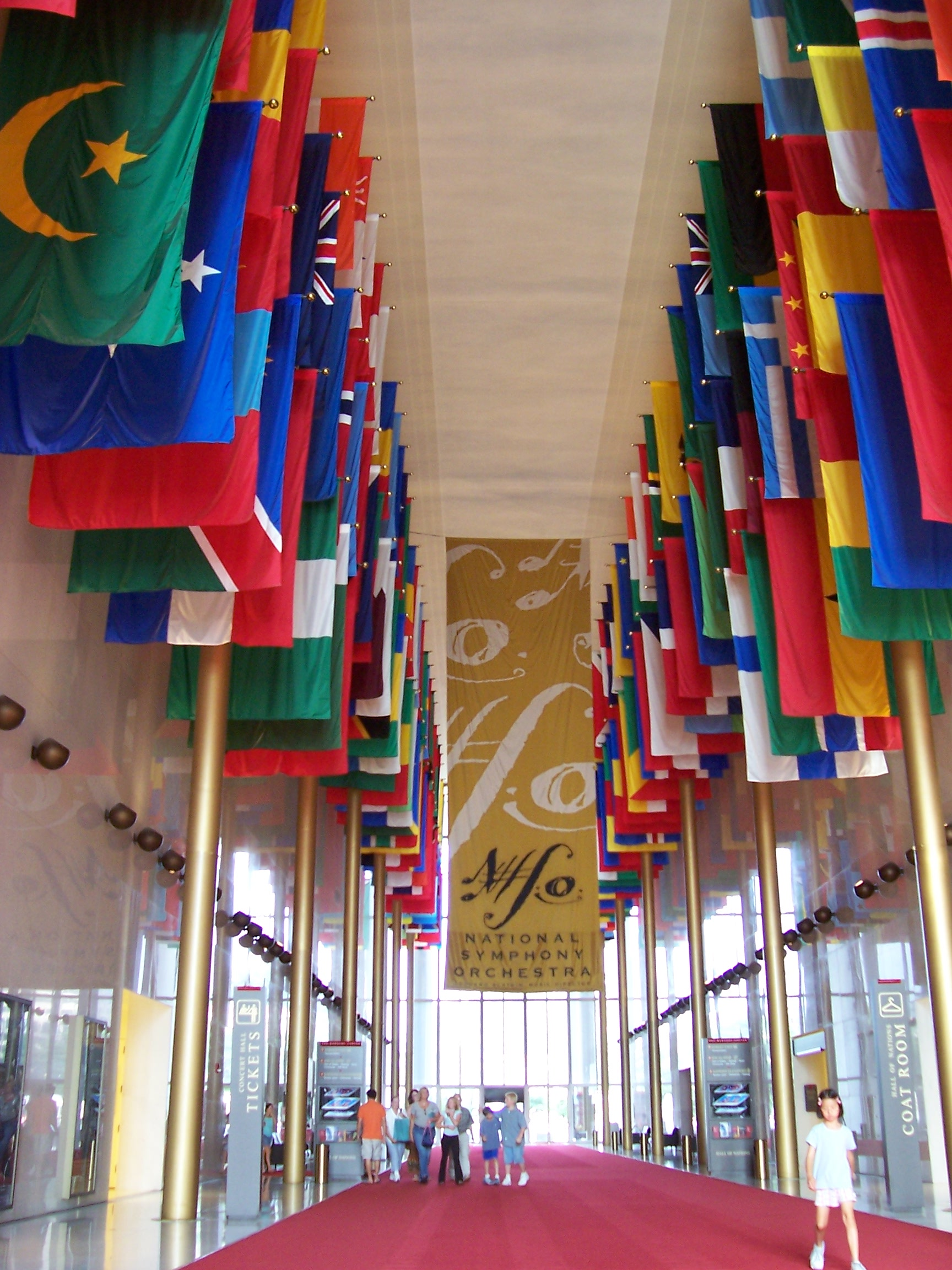 de la wiki en inglés: Banner of the NSO